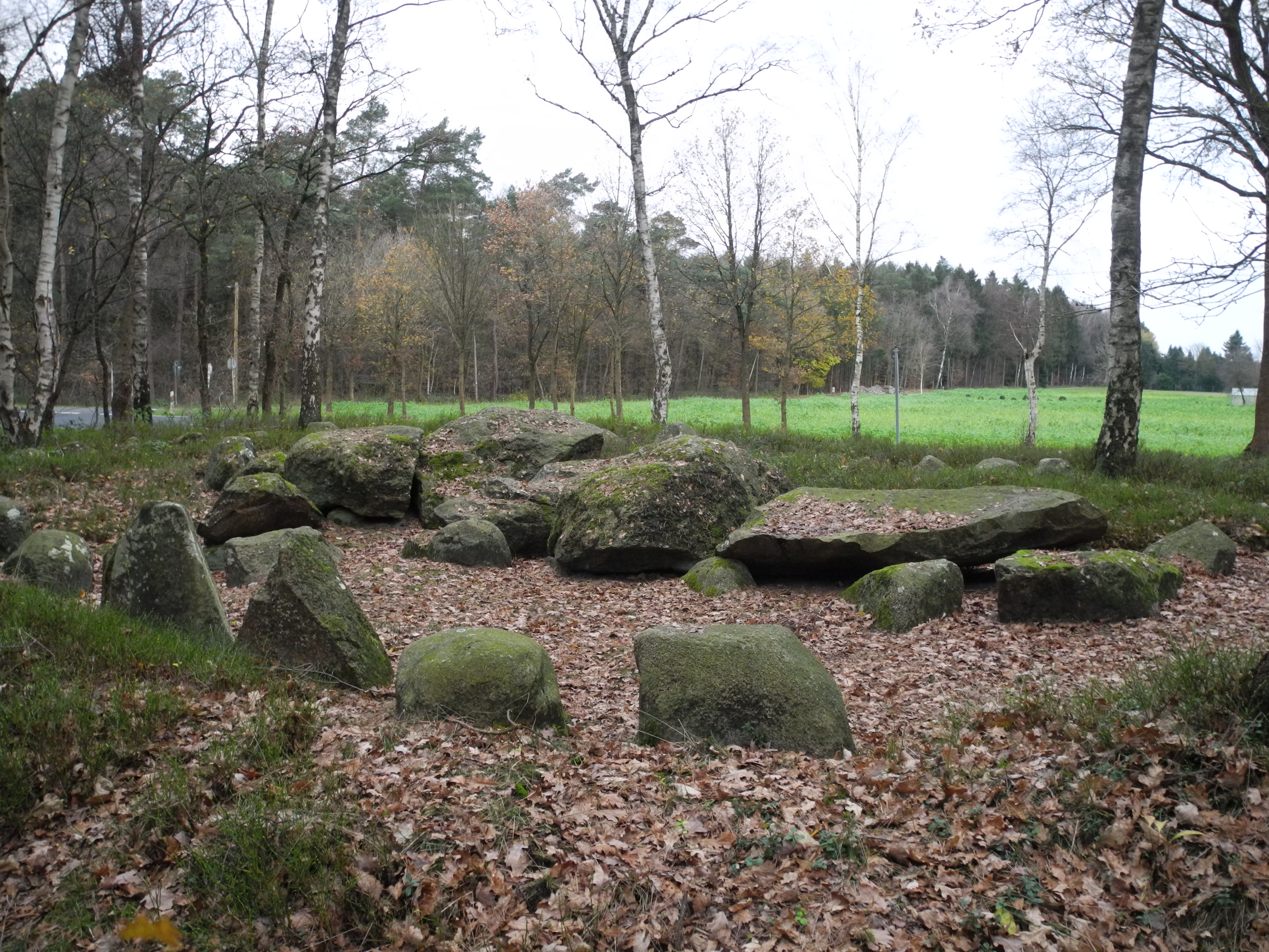 Megalithic grave "Düvelskuhlen I" (district Emsland in Lower Saxony, Germany).